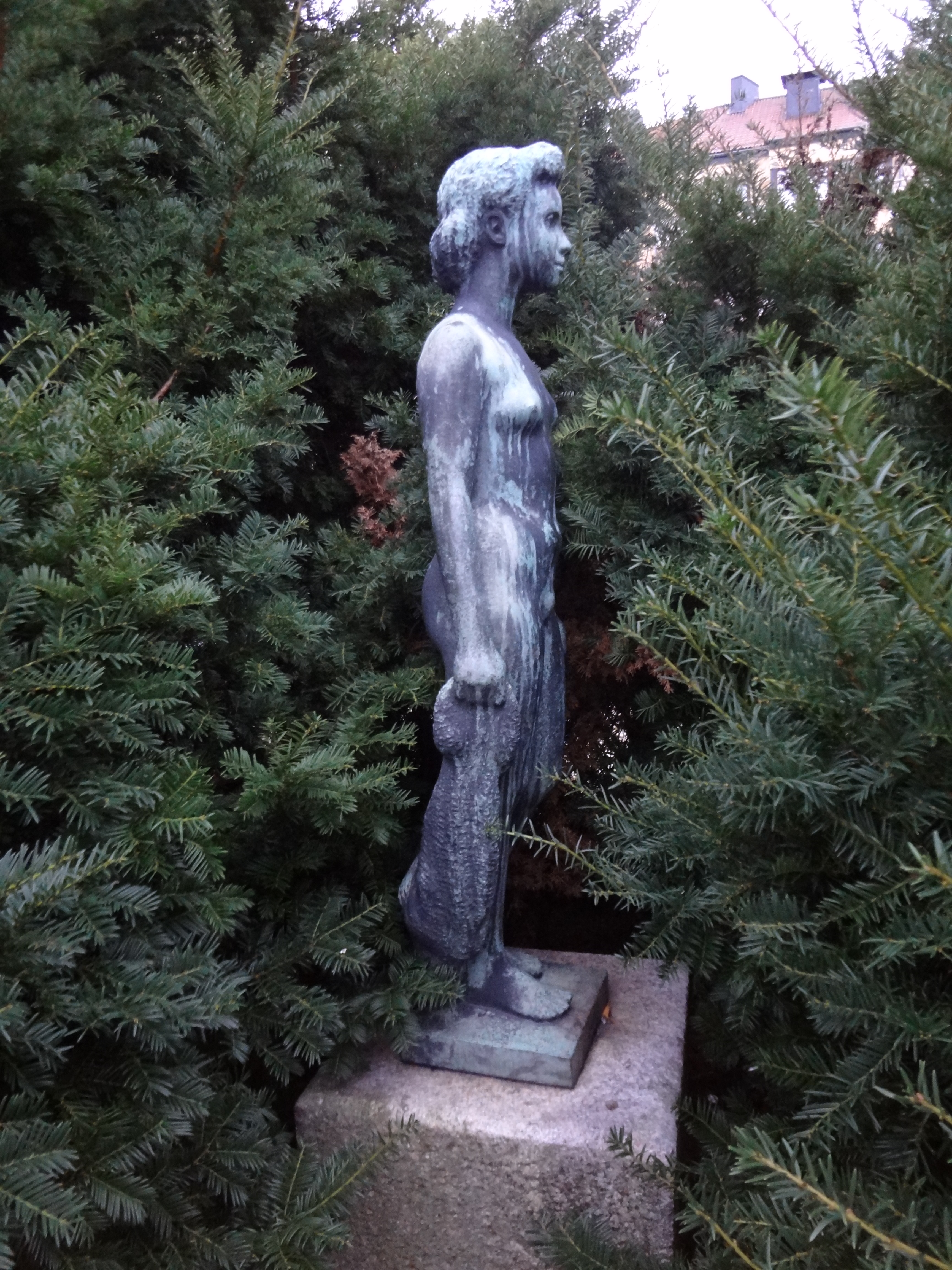 Sculpture "Kraka" by Gustav Nordahl. Järntorget, Eskilstuna.